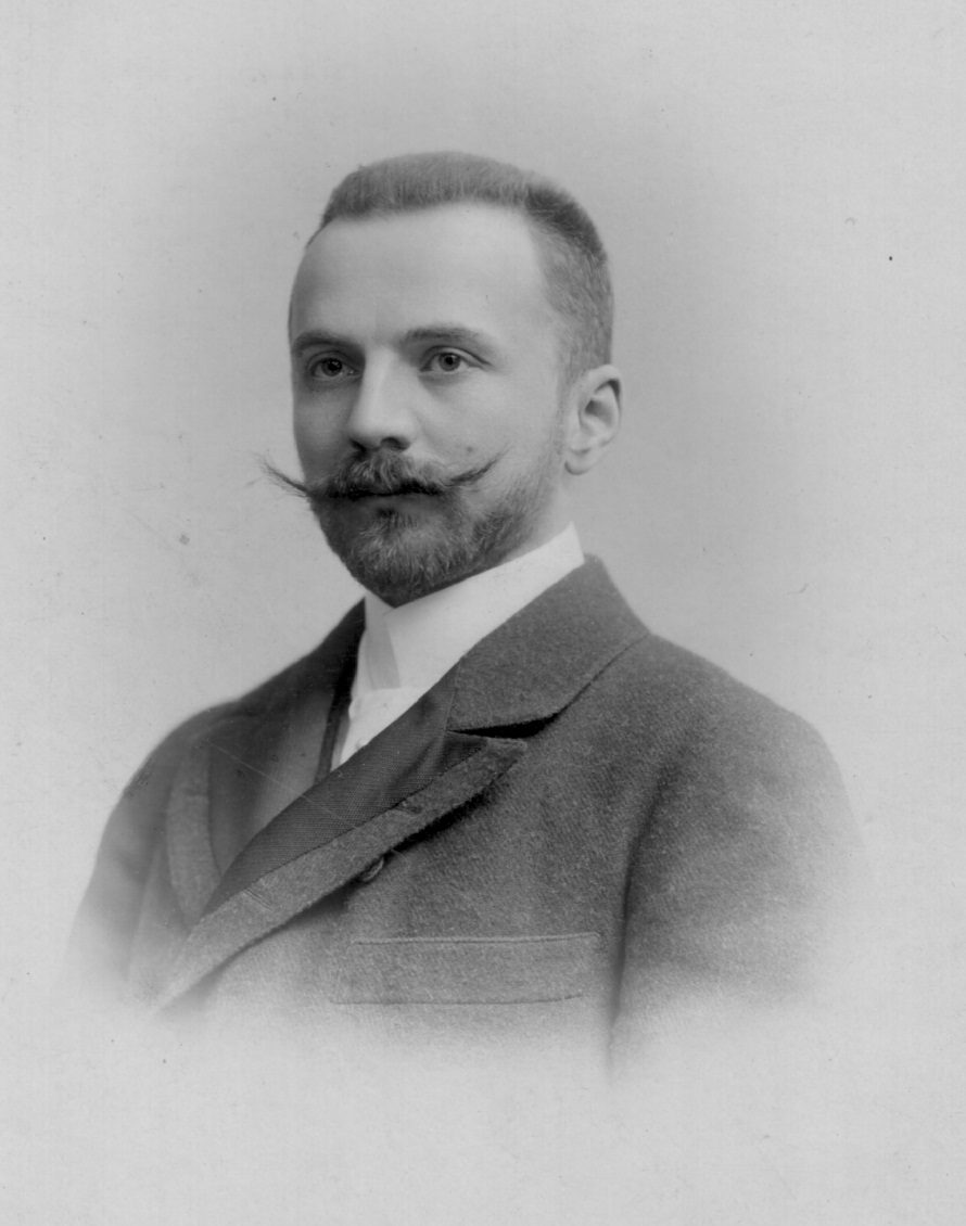 Rudolf von Wrbna-Kaunitz-Rietberg-Questenberg und Freudenthal (1864-1908) was married to Princess Elvira of Bavaria (1868–1943)